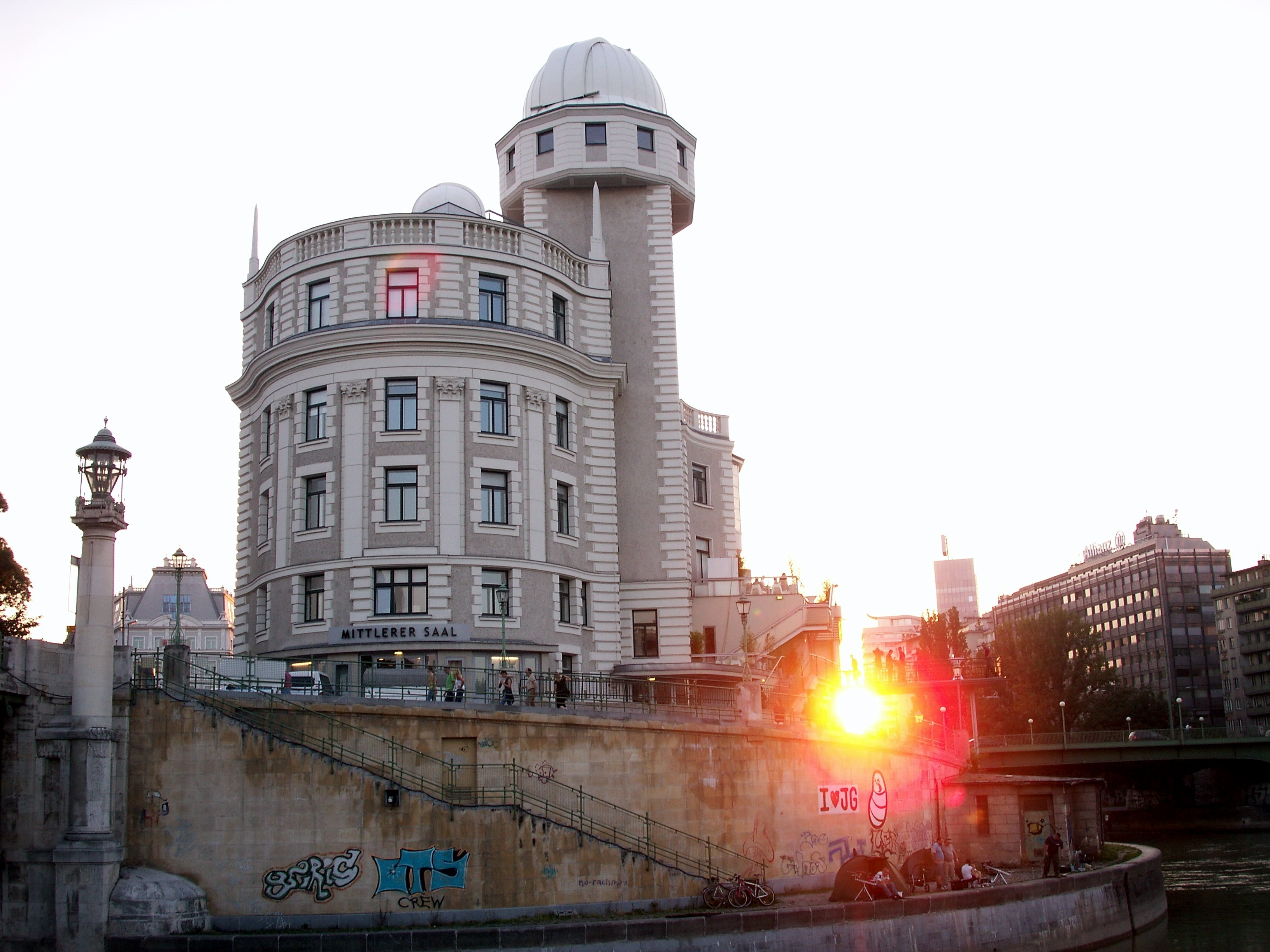 Urania in Vienna (Austria). East side of the entrance to the Middle Hall and the puppet theater. Sunset. In the foreground Fishermen at the confluence of Wien River and Danube canal. On the wall there are some graffiti.